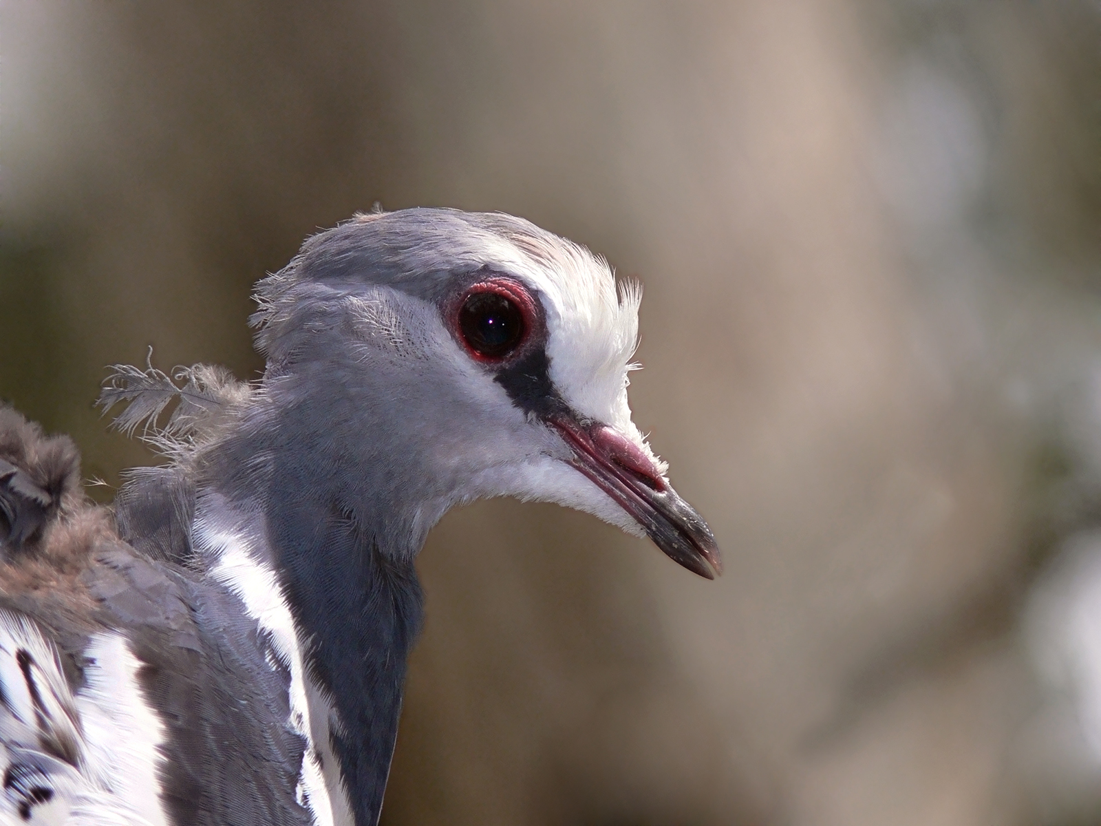 A wonga Pigeon (Leucosarcia melanoleuca) shows facial markings. Photo taken in south-eastern Australia.